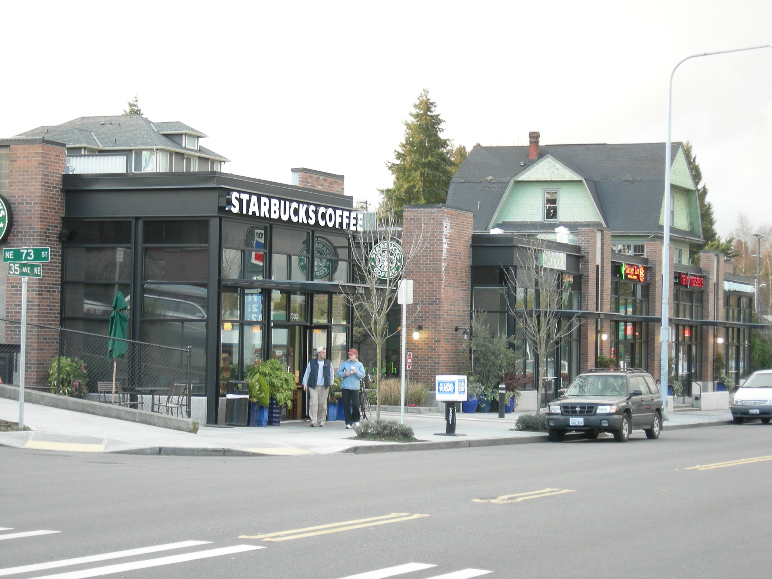 7300 block of 35th Avenue NE, in what might variously be counted as View Ridge or Wedgwood, Seattle, Washington. Now a commercial district, the neighborhood has long contained a large house (at right in this image) built some time between 1904 and 1910, that had long been the oldest house in the area. At the time this picture was taken, there were plans to demolish the house; it was finally demolished in 2015.